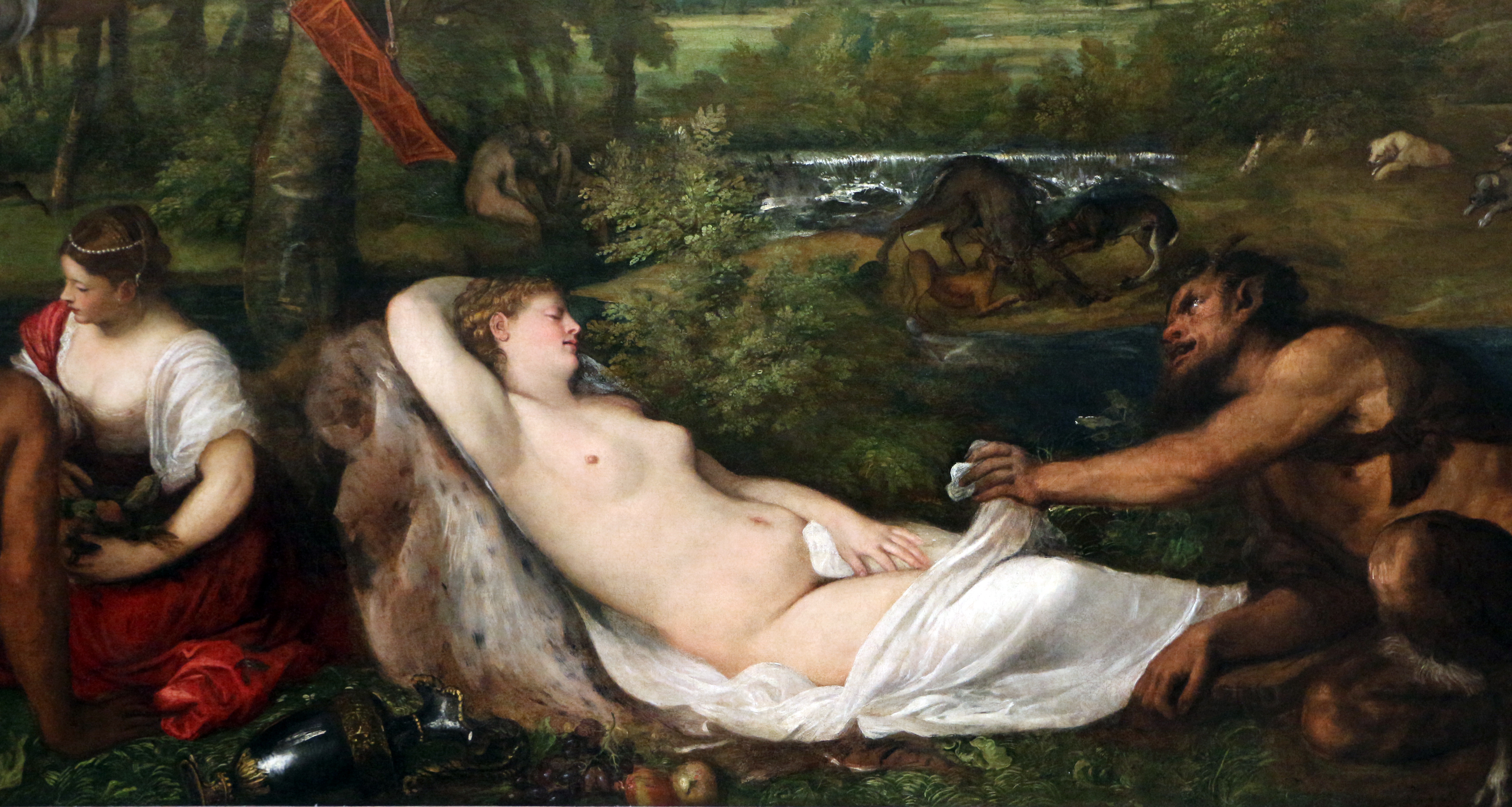 Paintings from Italy in the Louvre